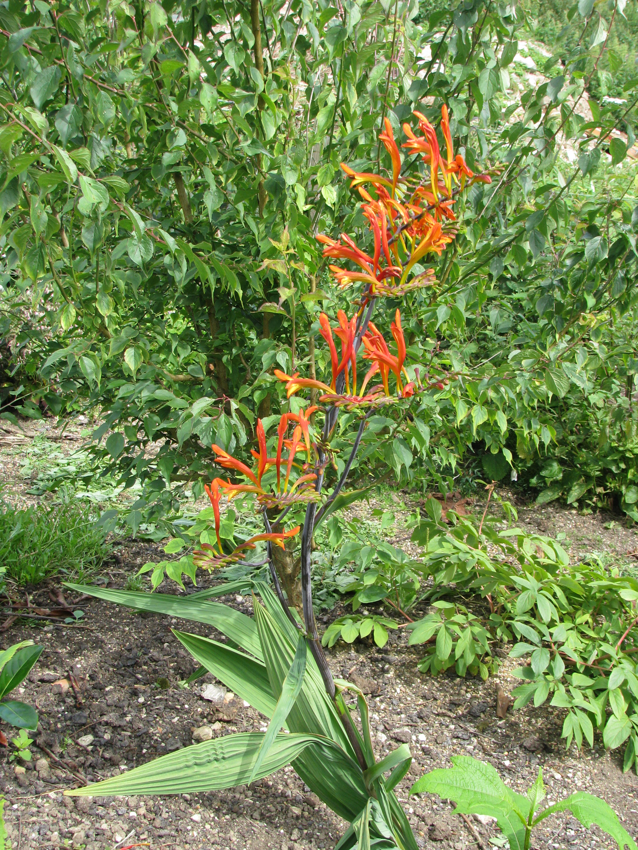 Crocosmia paniculata Cally Grey Leaf